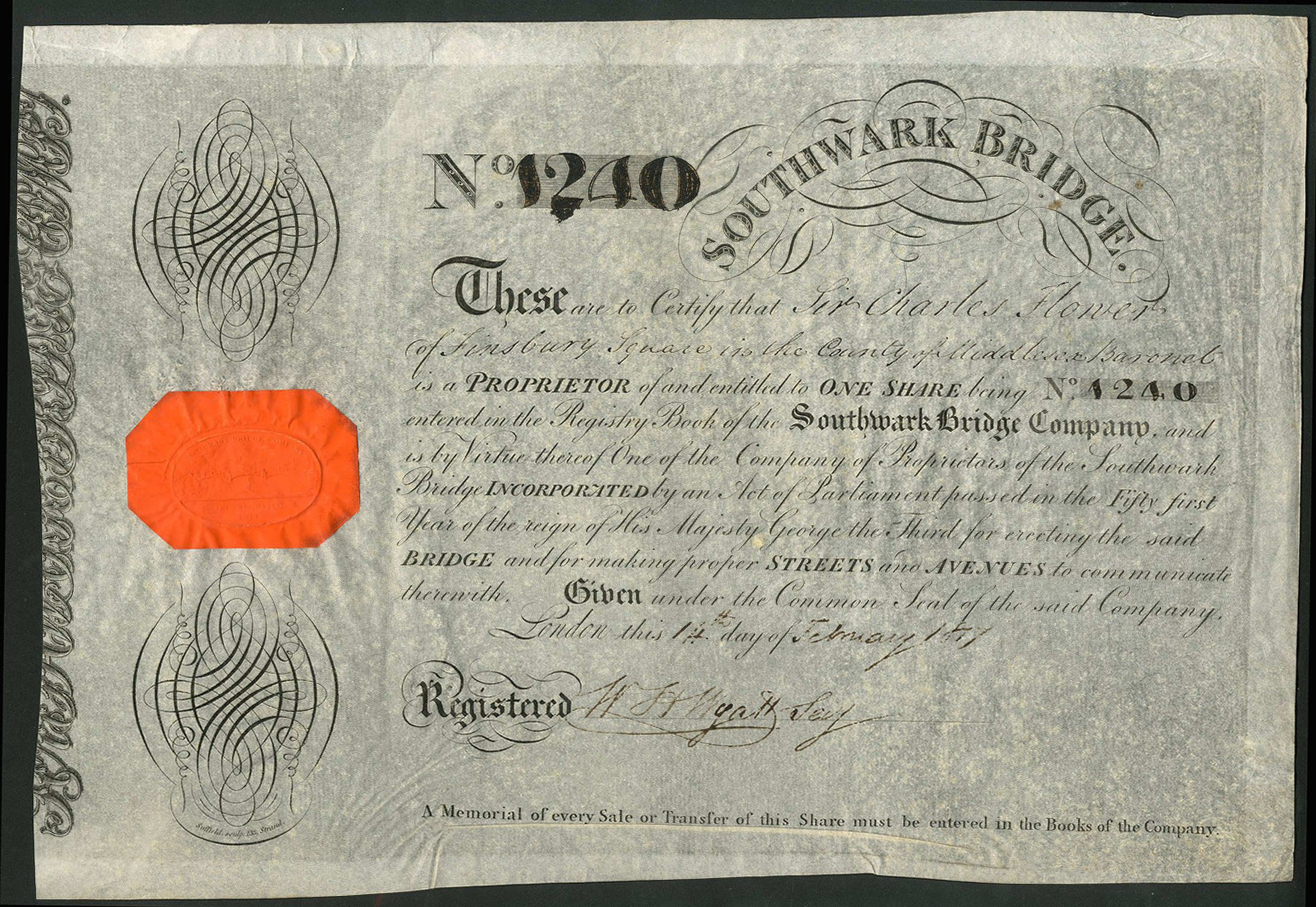 Share of the Southwark Bridge Company, issued 14. February 1817